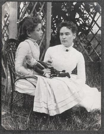 1888 photo of Helen Keller holding a doll. With Ann Sullivan. First publication: February 2008. US copyright expired in 1988 under then-current law that said unpublished material expired 100 years after creation.